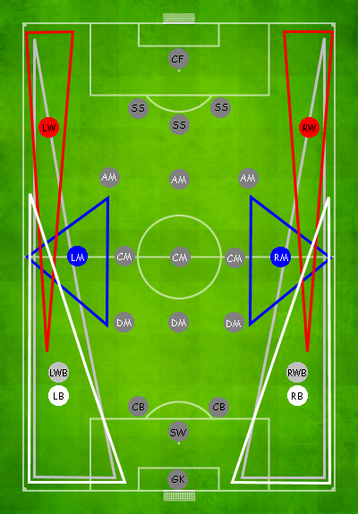 Base image (the pitch) - Image:Boisko.svg by User:MesserWoland Positions added by User:Tiresais 画像:396px-Boisko PositionsWMidfield.PNG